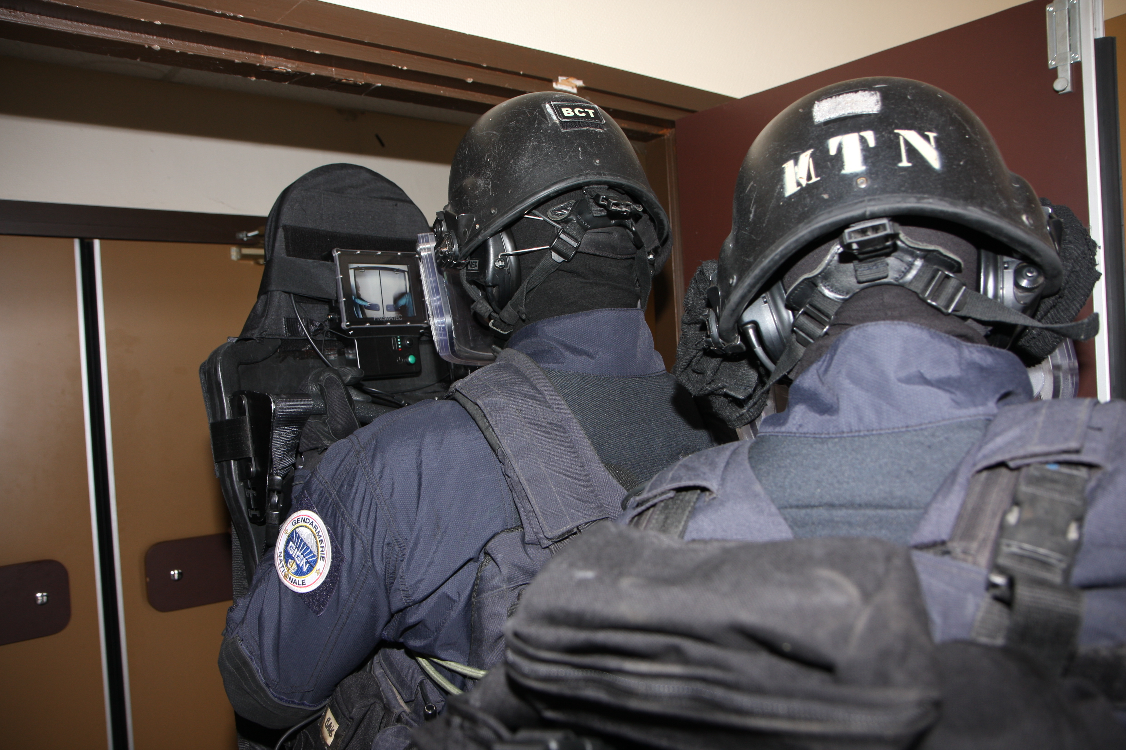 French Gendarmerie GIGN SWAT troopers (shield bearer)